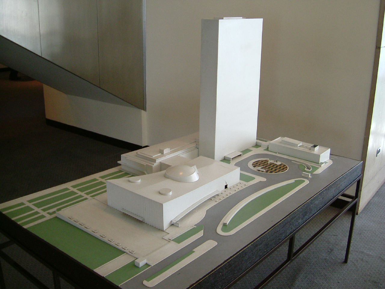 United Nations Scale Model